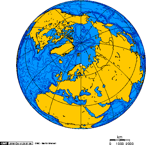 Orthographic projection over Kirkenes Norway